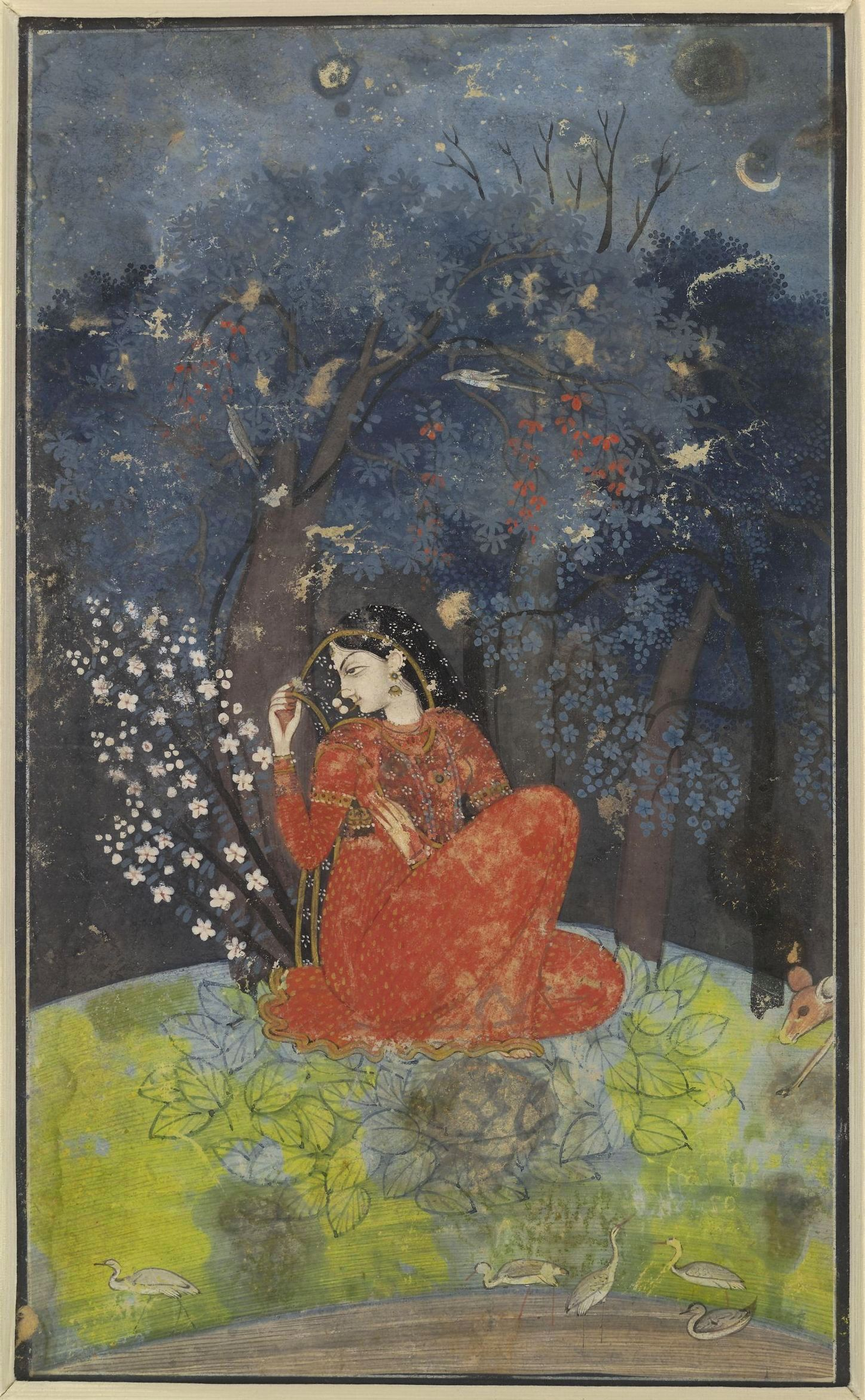 Utka_Nayika._A_lady_awaits_her_lover_in_the_forest._1775-1780._Kangra,_British_Museum,_London.